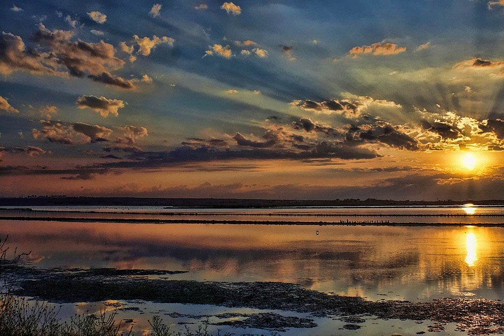 Atanasovo Lake / Atanasovsko Ezero. Bulgaria